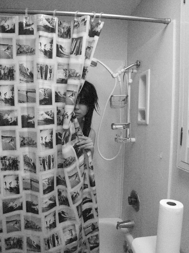 Girl in shower